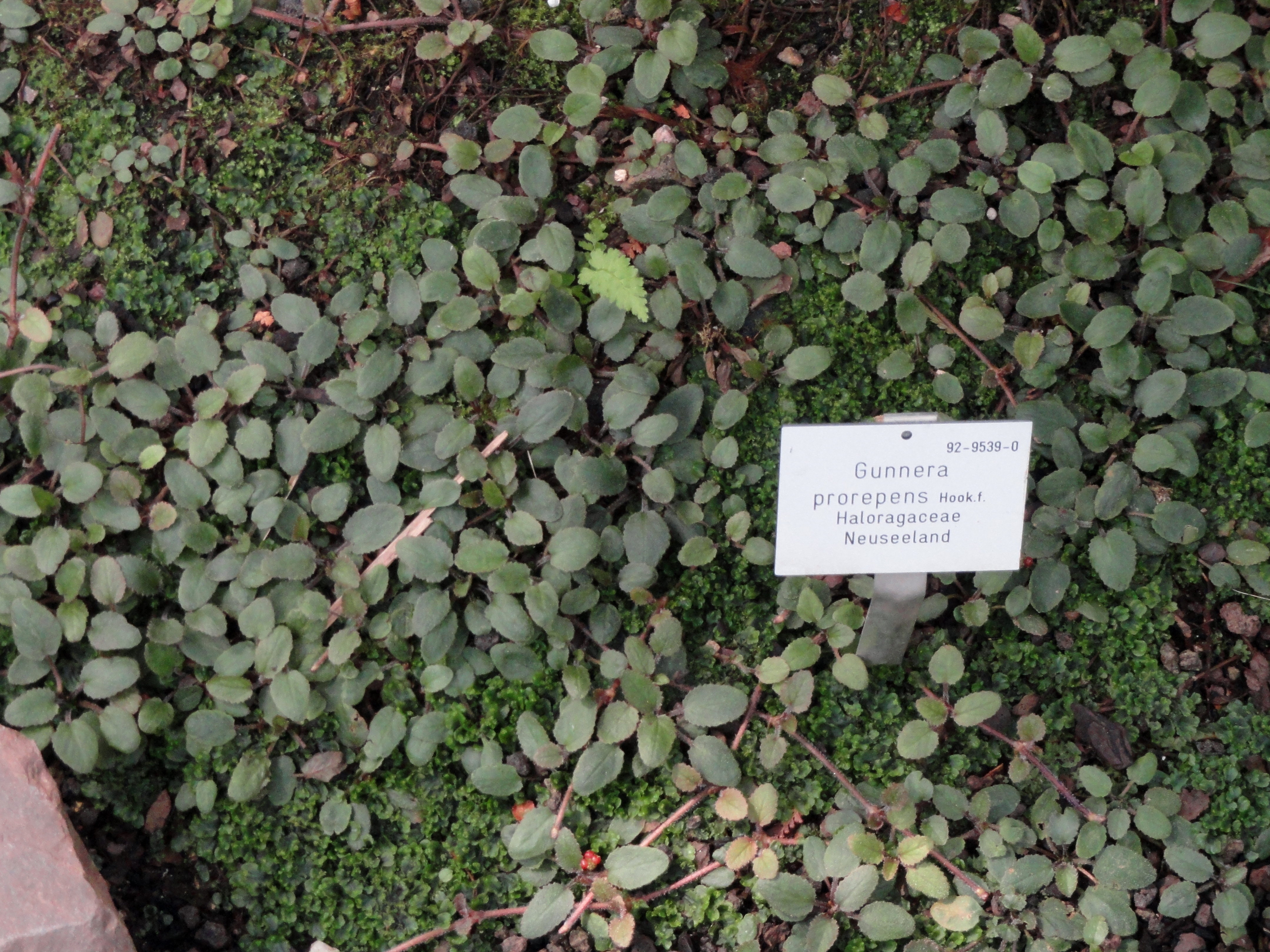 Botanical specimen in the Palmengarten, Frankfurt am Main, Germany.